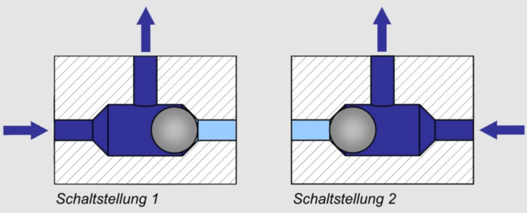 Switch positions of a shuttle valve